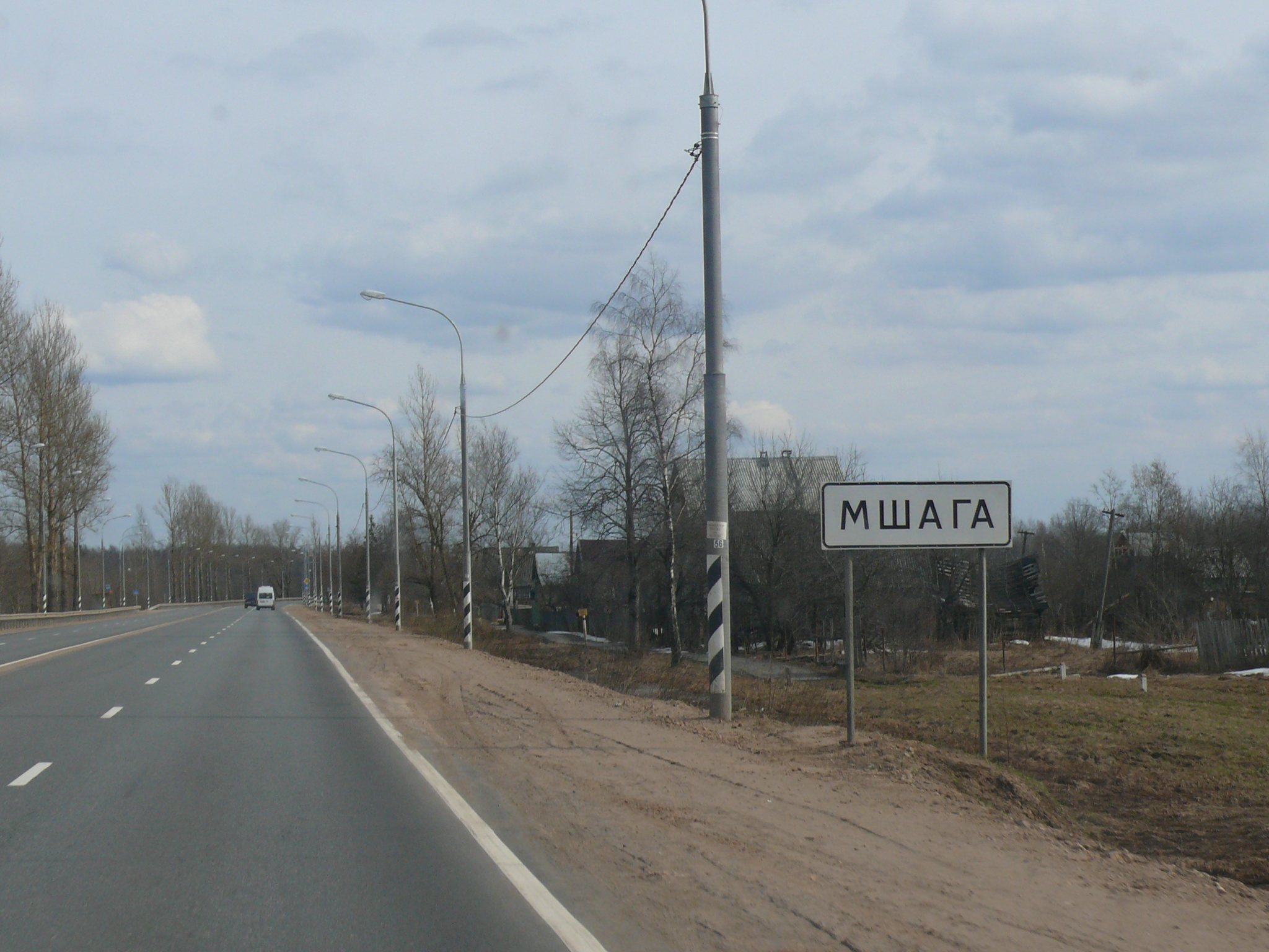 Entry into Mshaga village, Novgorodsky district, Novgorod oblast, Russia